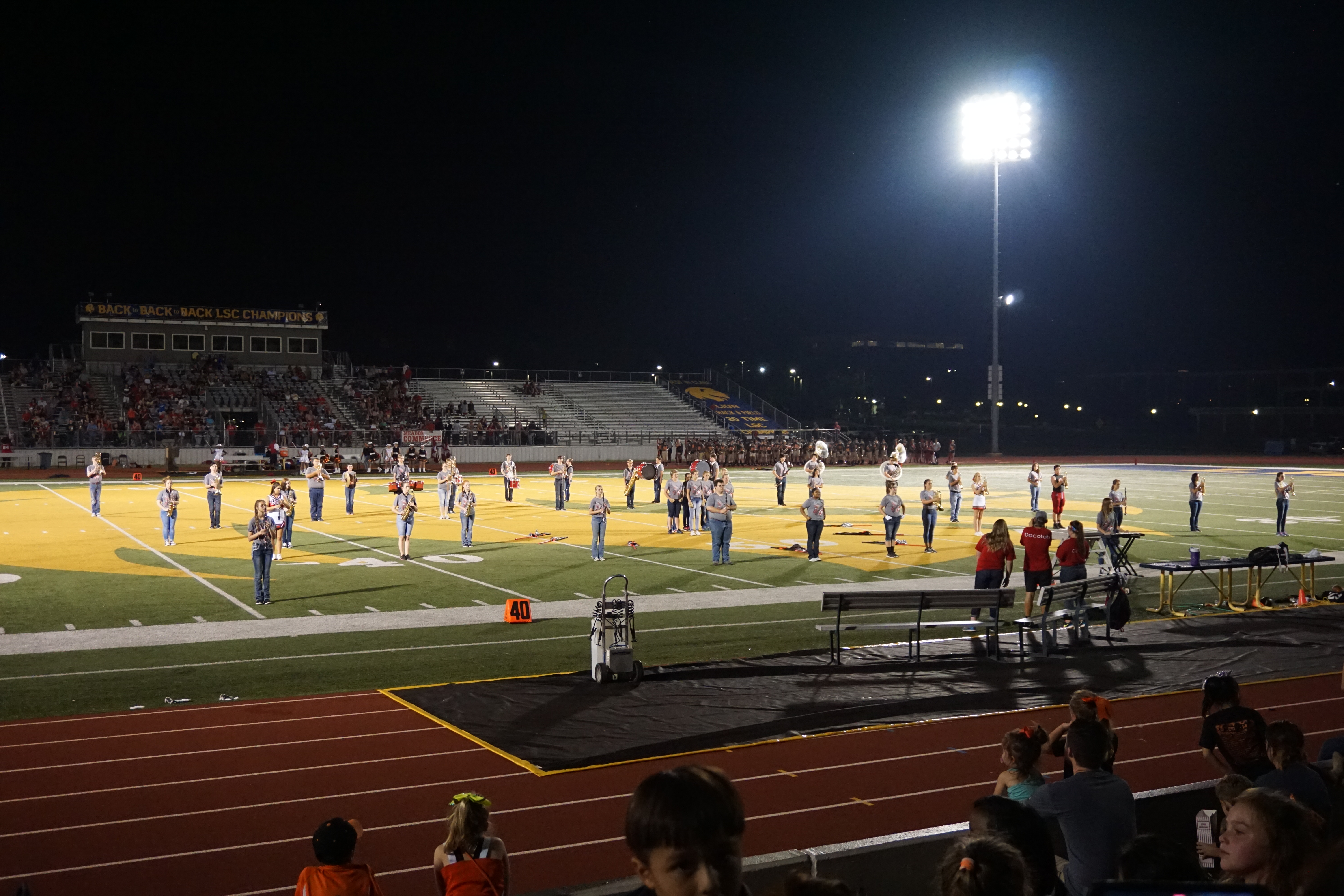 The Lone Oak High School Marching Band performing during halftime of the Lone Oak Buffaloes vs. Commerce Tigers high school football game at Memorial Stadium in Commerce, Texas (United States). Lone Oak won 49–27.